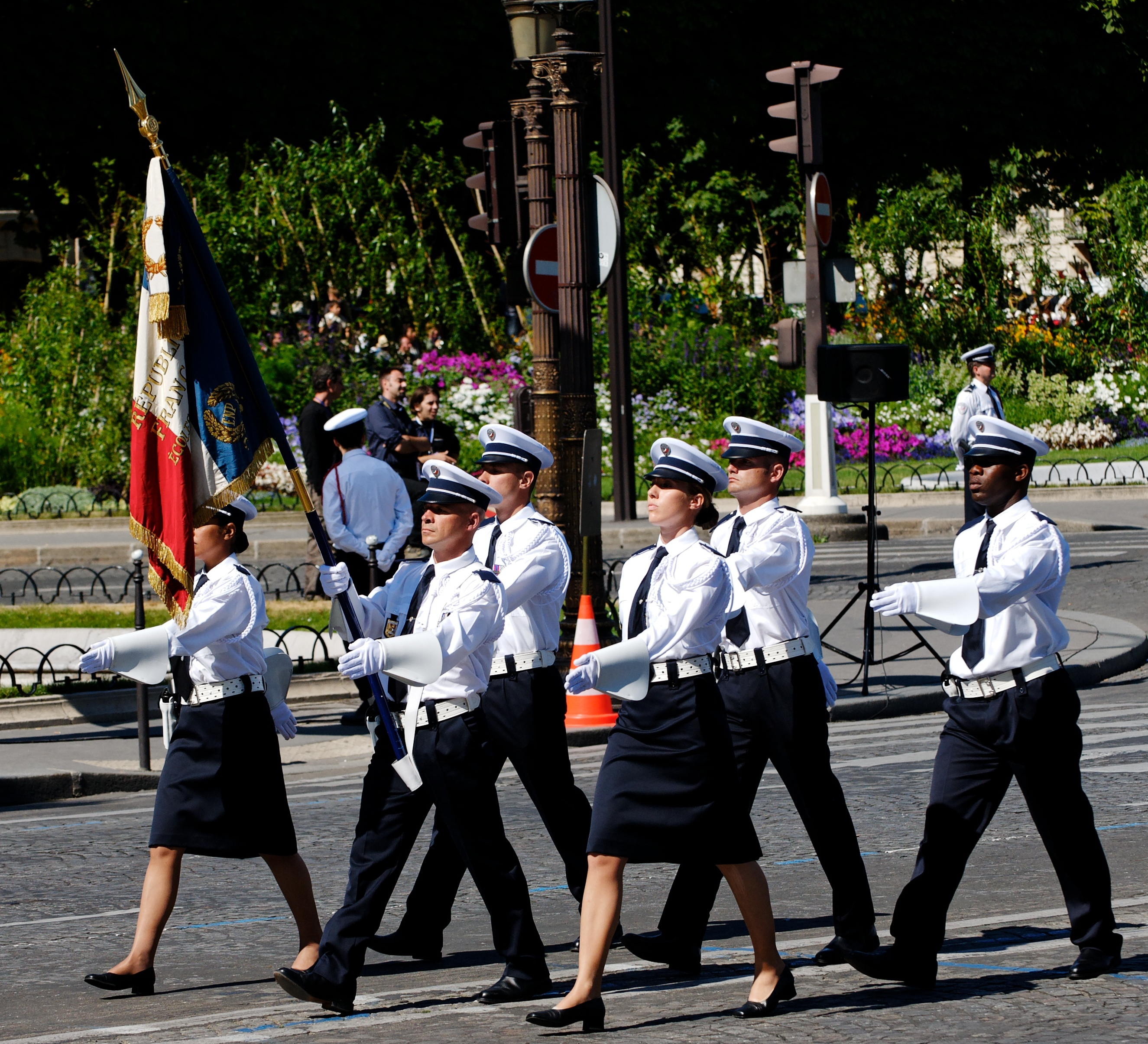 Flag guard of the Police Academy of Rouen-Oissel, Bastille Day 2008 military parade on the Champs-Élysées, Paris.